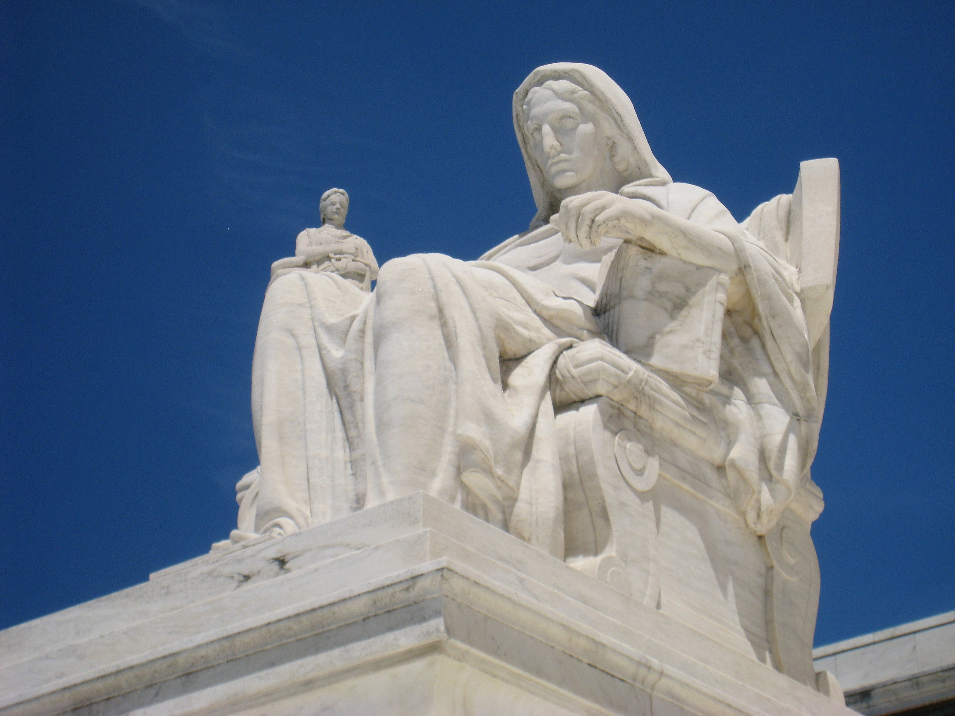 "Contemplation of Justice" by James Earle Fraser, US Supreme Court, Washington, DC, USA.